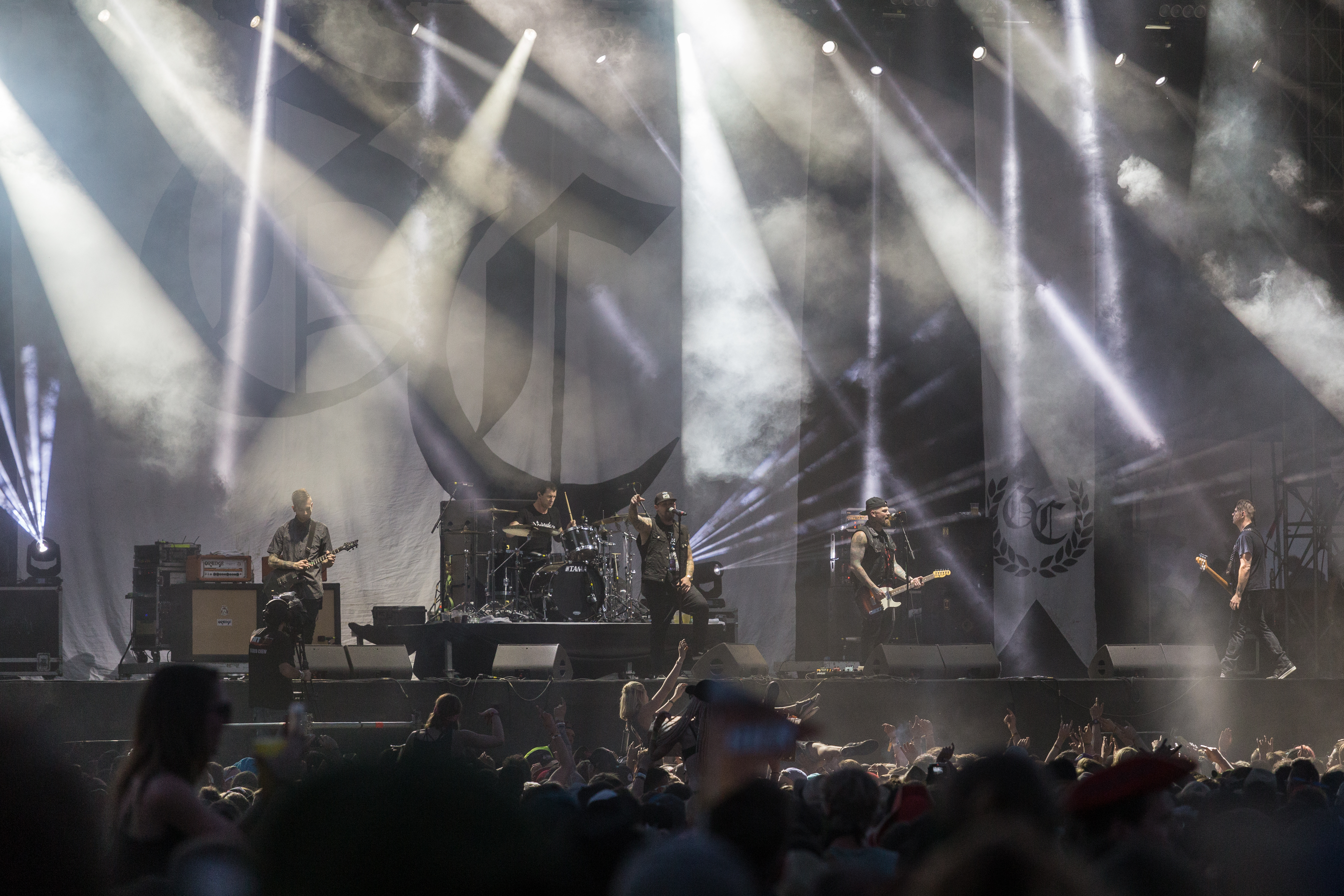 Nova Rock 2017 Good Charlotte at the Nova Rock 2017